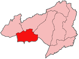 Map of Bong County, Liberia showing Salala District; created with the GIMP. Made by User:Acntx.